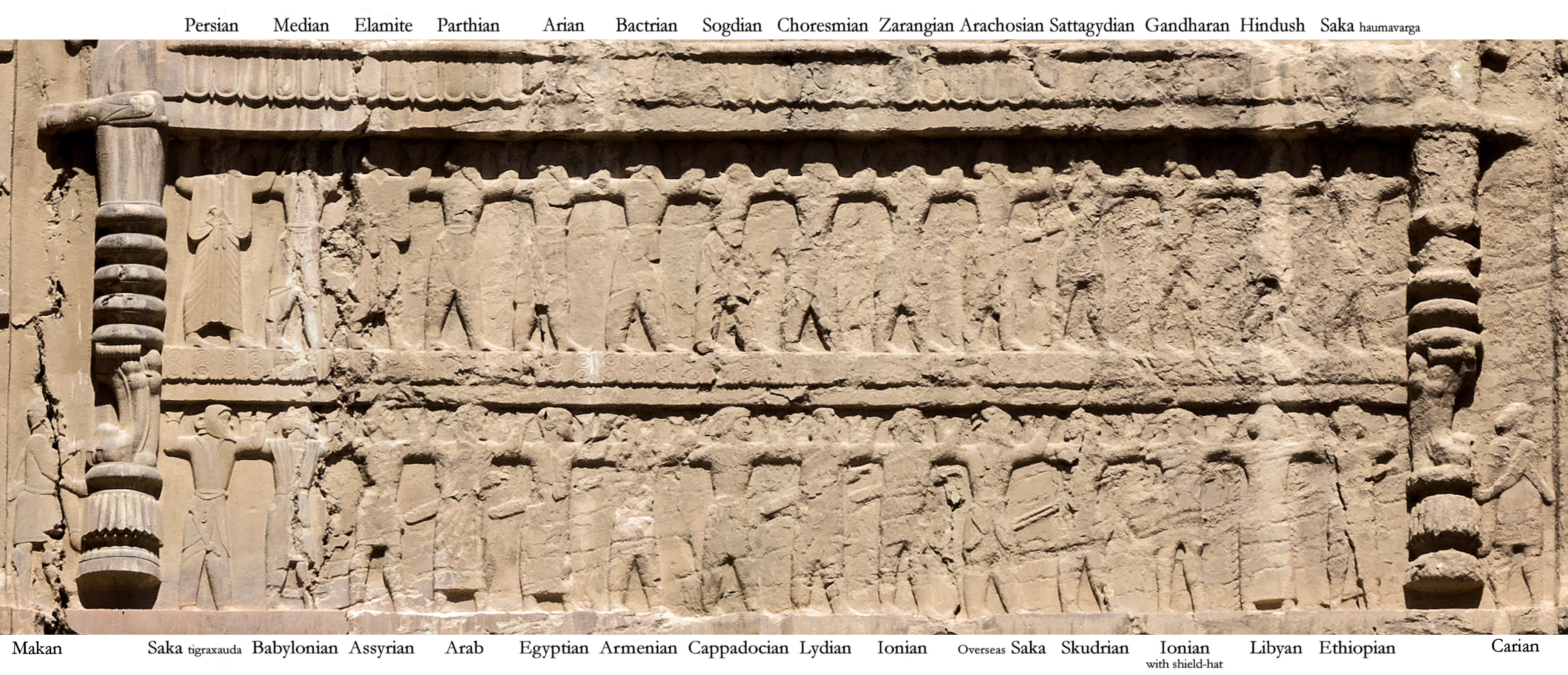 Tomb of Artaxerxes I ethnicities with labels